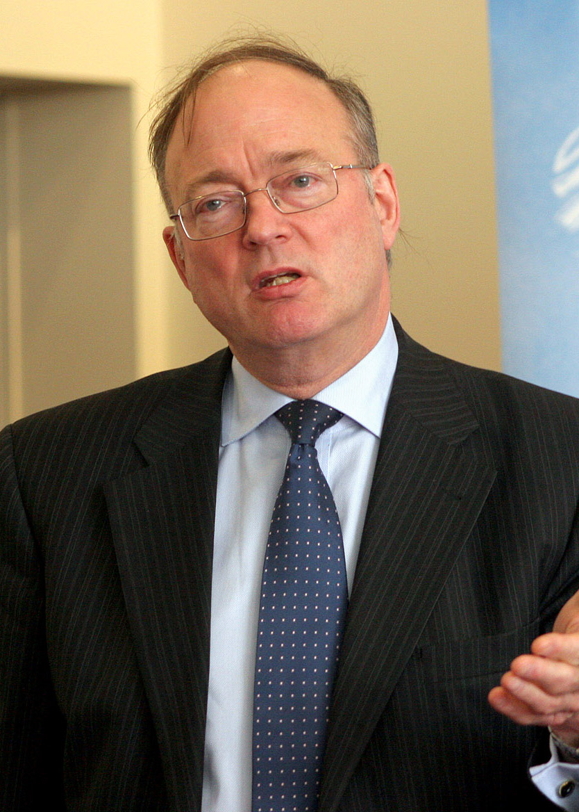 Malcolm Harbour MEP, pictured speaking on the launch of the Conservative Party manifesto for the 2009 European Parliament elections, at Keele University. (834x1168 px, 291,984 bytes)